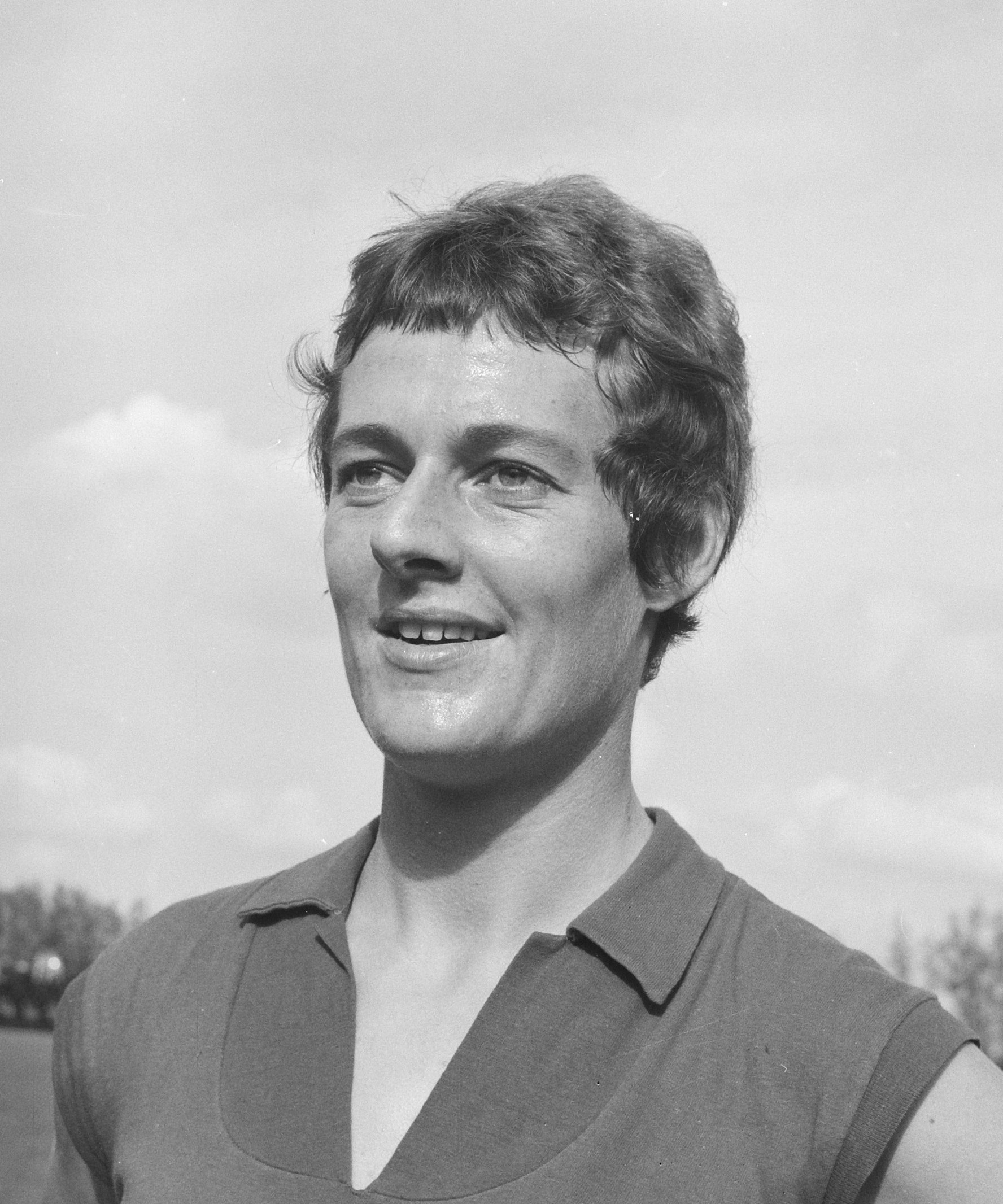 Nationale Veldloop Kampioenschappen 61 te Gouda. Gerda Kraan